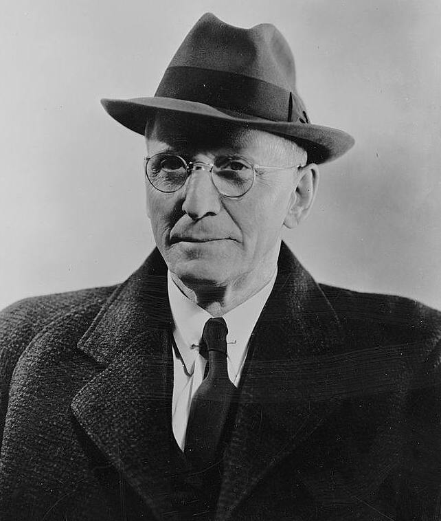 Tennessee Valley Authority director and former University of Tennessee president Harcourt Morgan.